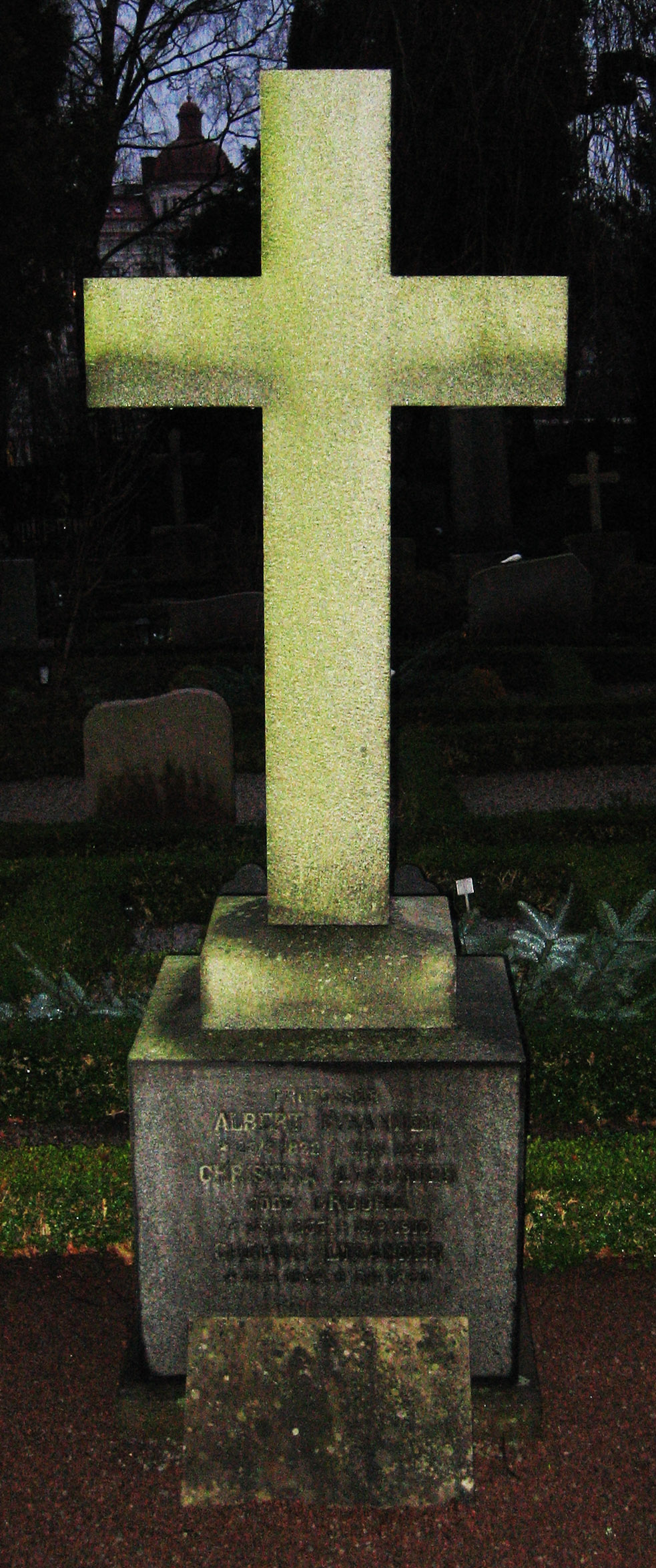 Grave of swedish professor Albert Lysander (1822-1890). Photo taken at Klosterkyrkogården, Lund, Sweden, 090110 by the uploader.